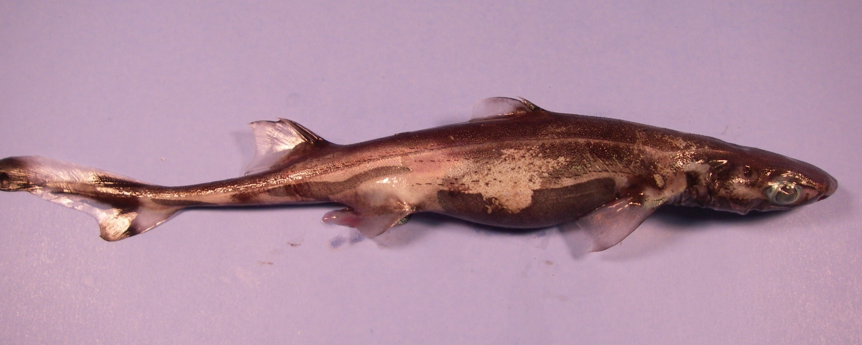 Green lanternshark (Etmopterus virens) from the Gulf of Mexico